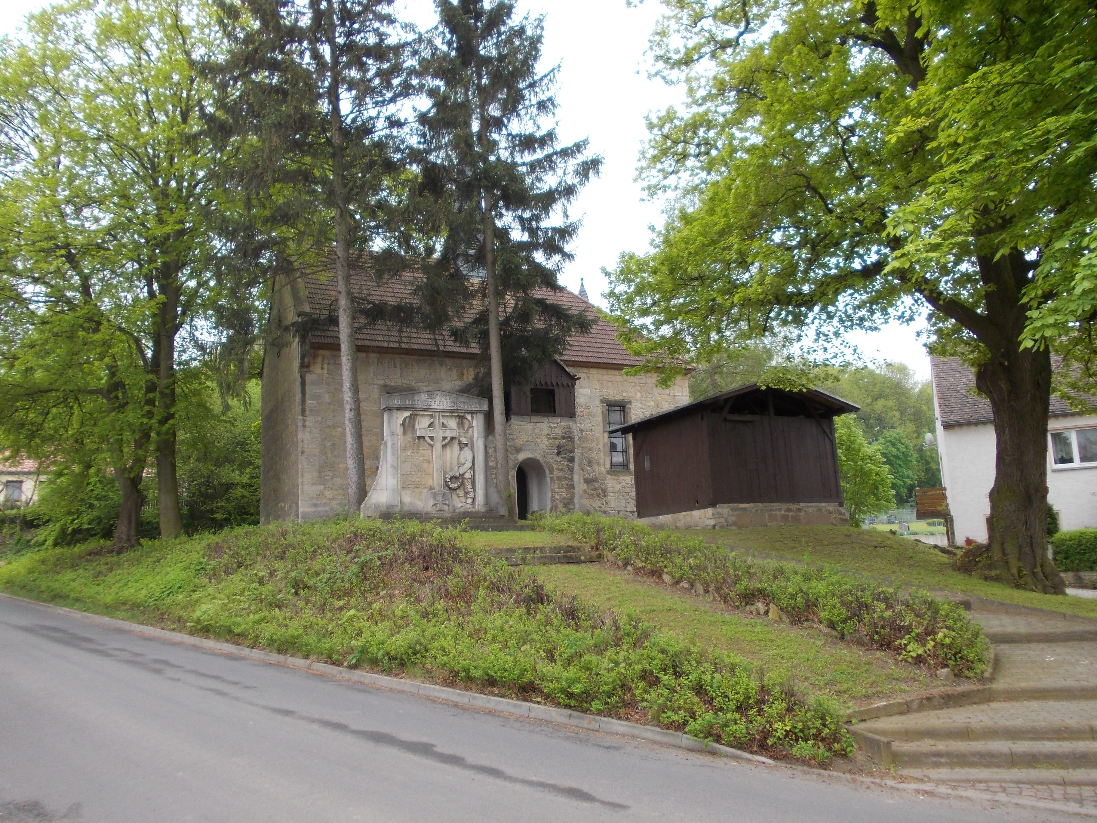 St. John's Church in Pomnitz (Lanitz-Hassel-Tal, district: Burgenlandkreis, Saxony-Anhalt) with World War I memorial